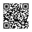 QR code of websot address pf zh-min-nan wikipedia.